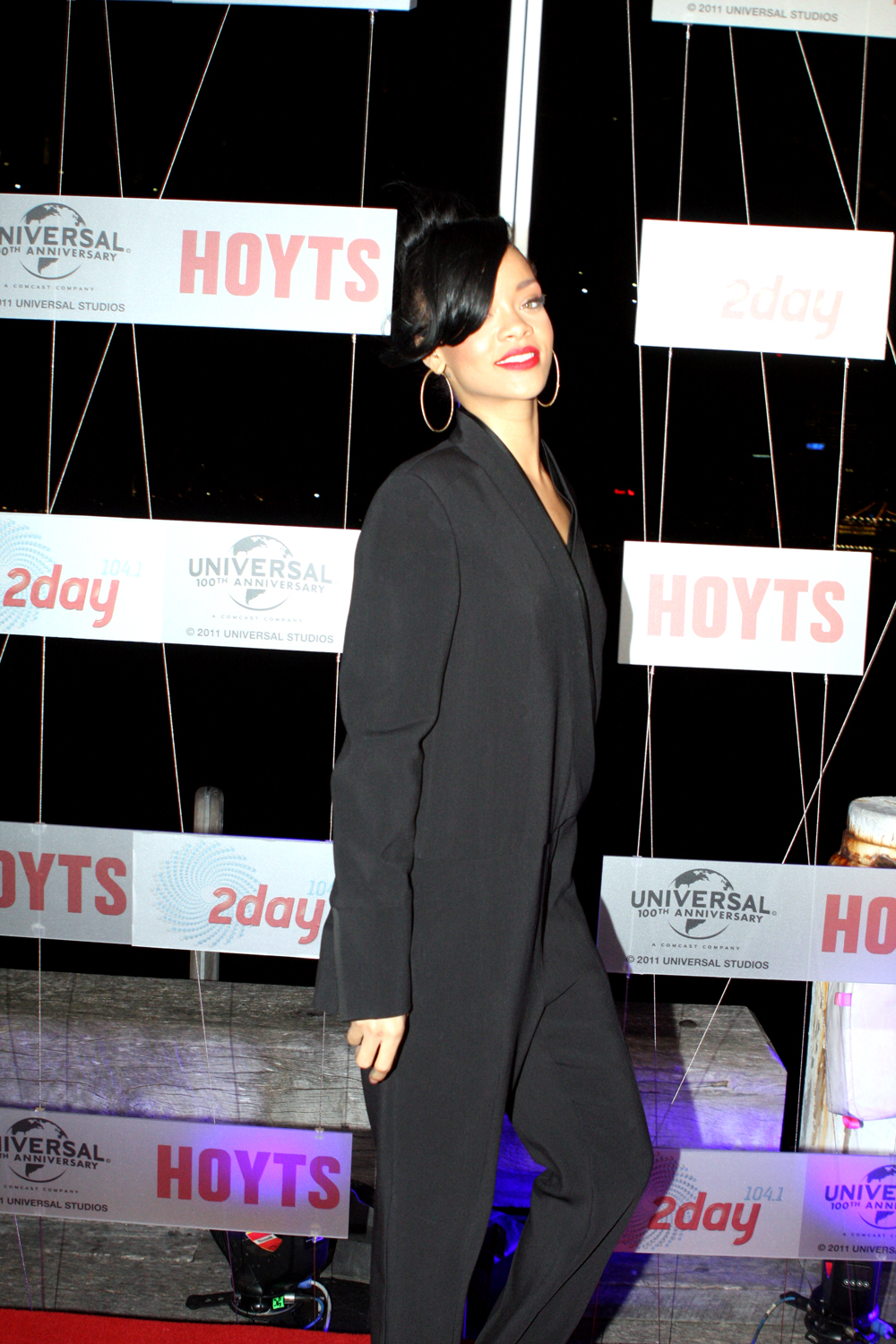 BATTLESHIP stars berth at Sydney; Luna Park; Taylor Kitsch, Rihanna, Brooklyn Decker, director Peter Berg